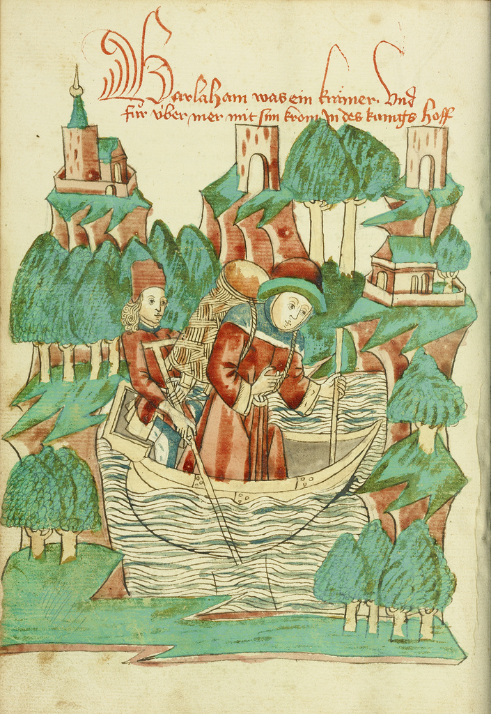 Barlaam, Carrying a Shoulder Pack, Crosses a River; Follower of Hans Schilling (German, active 1459 - 1467), from the Workshop of Diebold Lauber (German, active 1427 - 1467); Hagenau, Alsace, France (formerly Germany); 1469; Ink, colored washes, and tempera colors on paper; Leaf: 28.6 x 20.3 cm (11 1/4 x 8 in.); Ms. Ludwig XV 9, fol. 38v